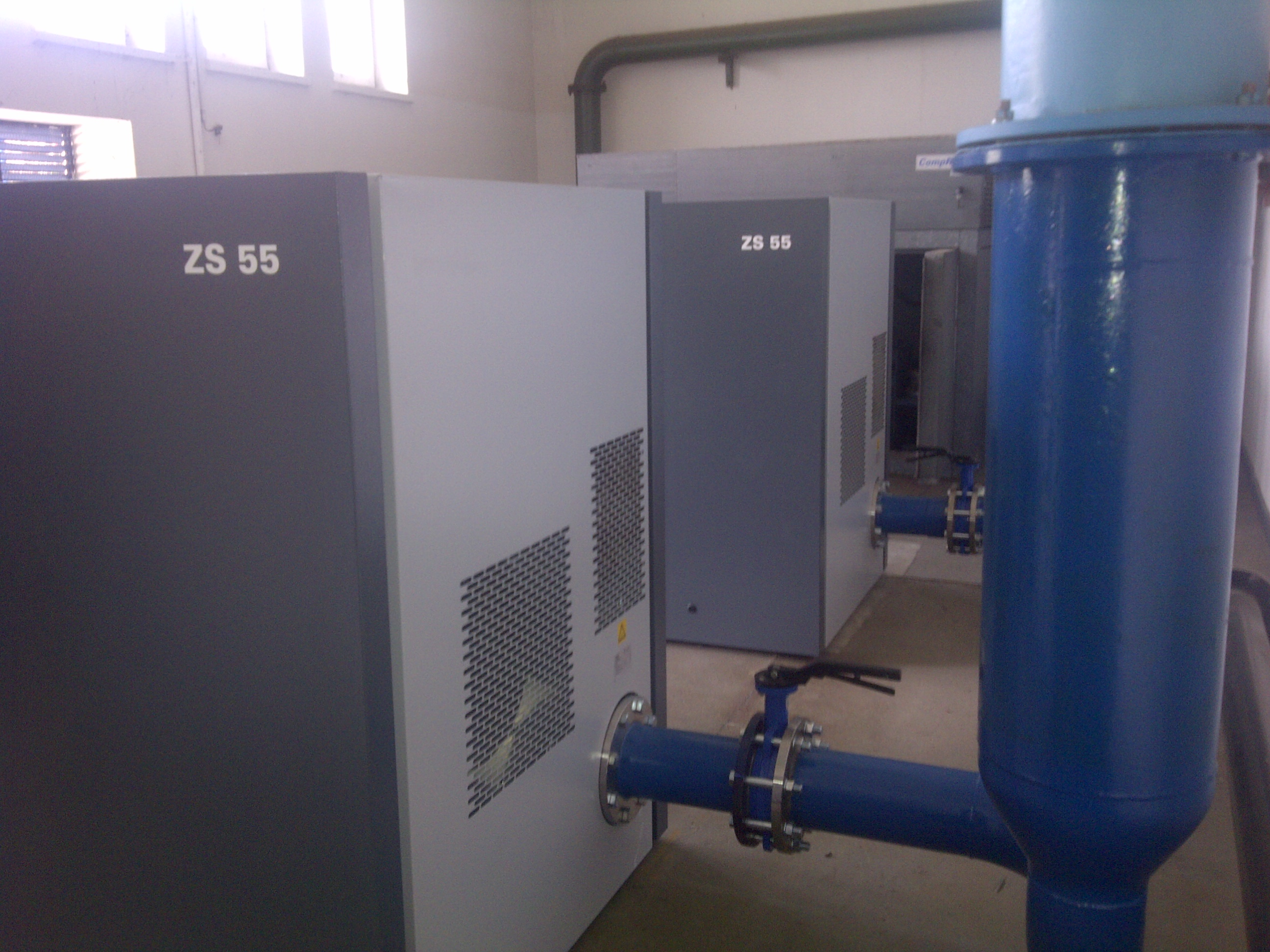 Rotary screw blowers